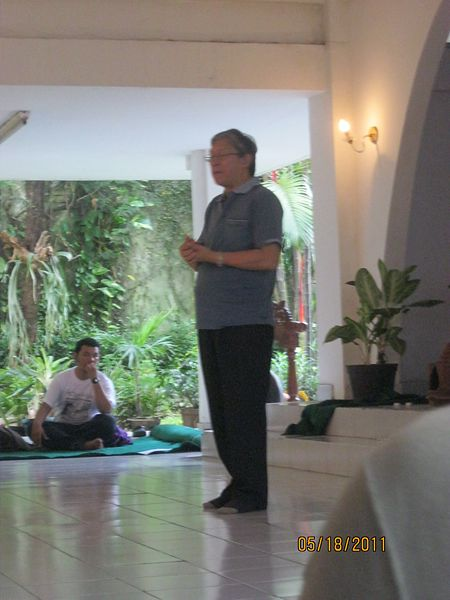 Stephen Suleeman as representatives of Wikimedia Indonesia